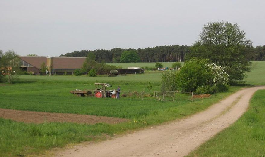 At the border from Baitz to the Belziger Landschaftswiesen. The village Baitz is an incorporated part of the town Brück in Brandenburg, Germany.